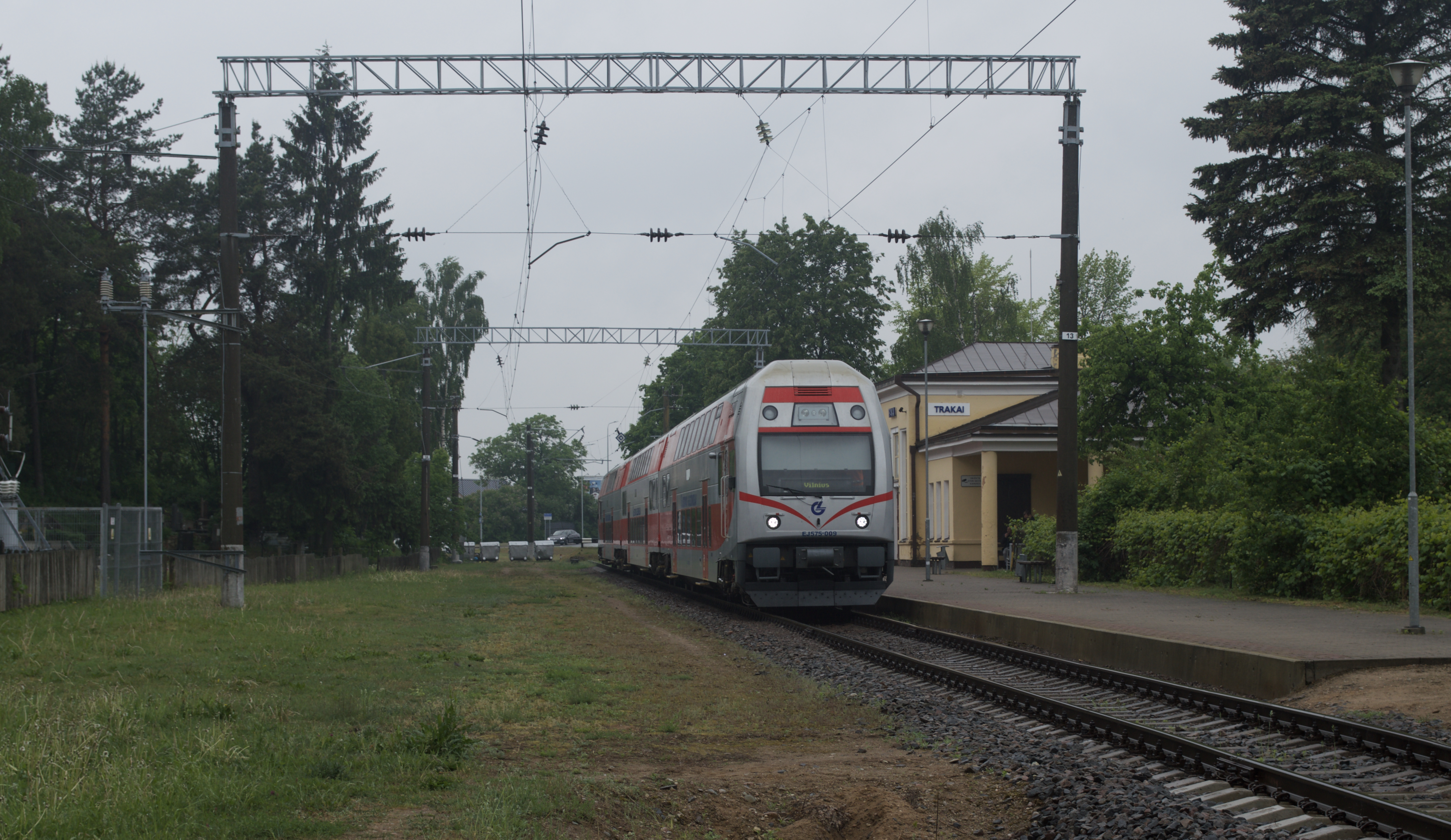 Opposite end view of EJ575-009 prior to departure on 28 May 2019 with train 860, 12:30 Trakai to Vilnius.